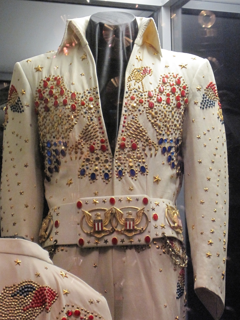 Graceland, Memphis, Tennessee. Aloha from Hawaii jumpsuit